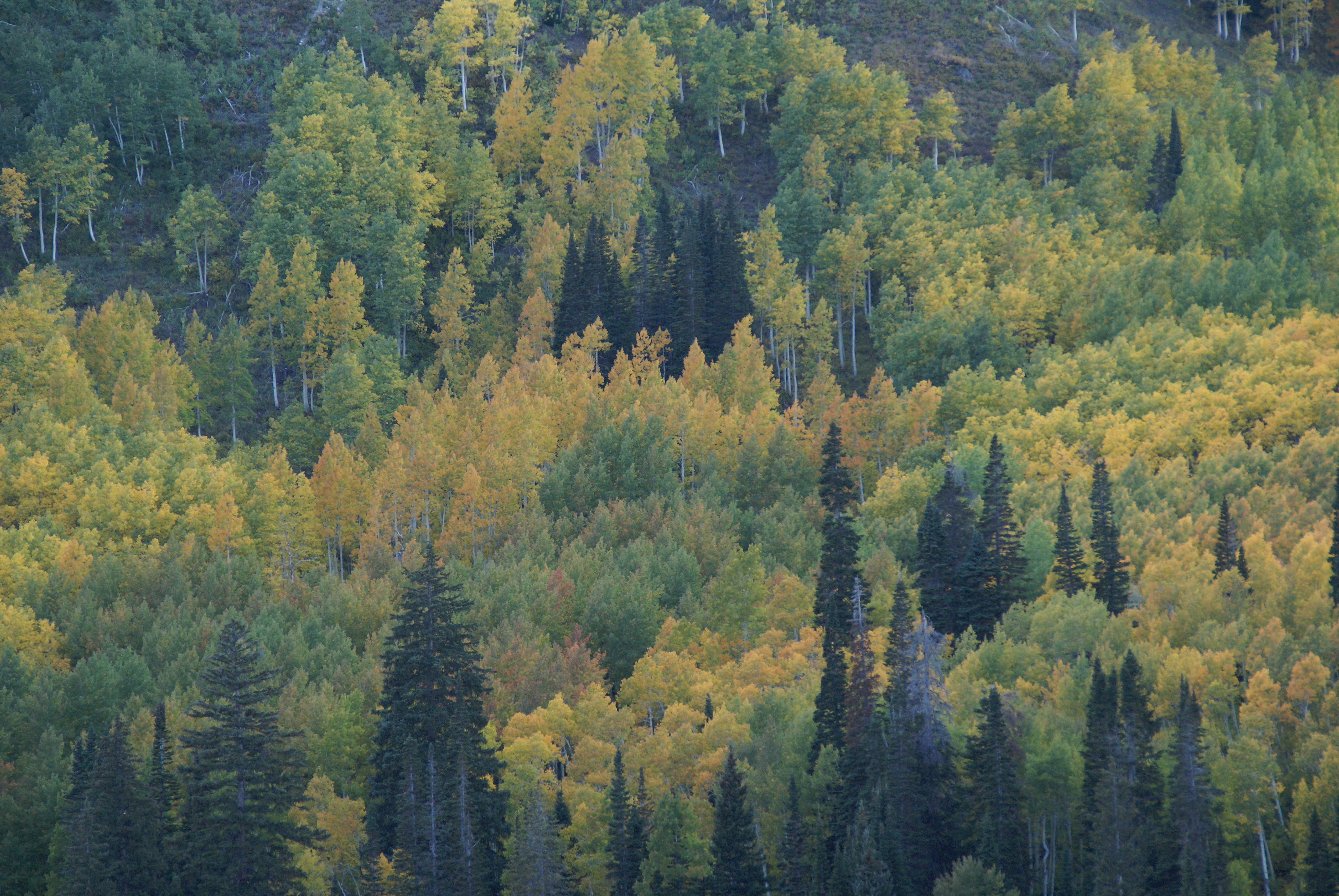 Leaves of Utah mountain trees changing color during autumn.